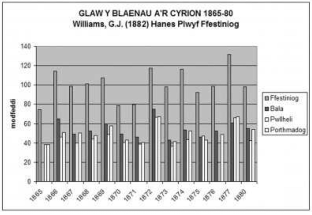 Graff showing rainfall in the Ffestiniog are in the period 1865-80 in comparison that of